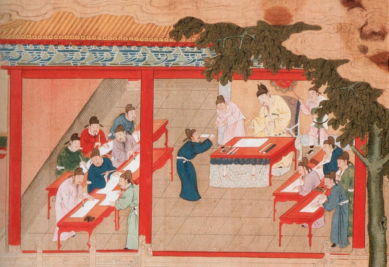 Palace Examination at Kaifeng, Song Dynasty, China.